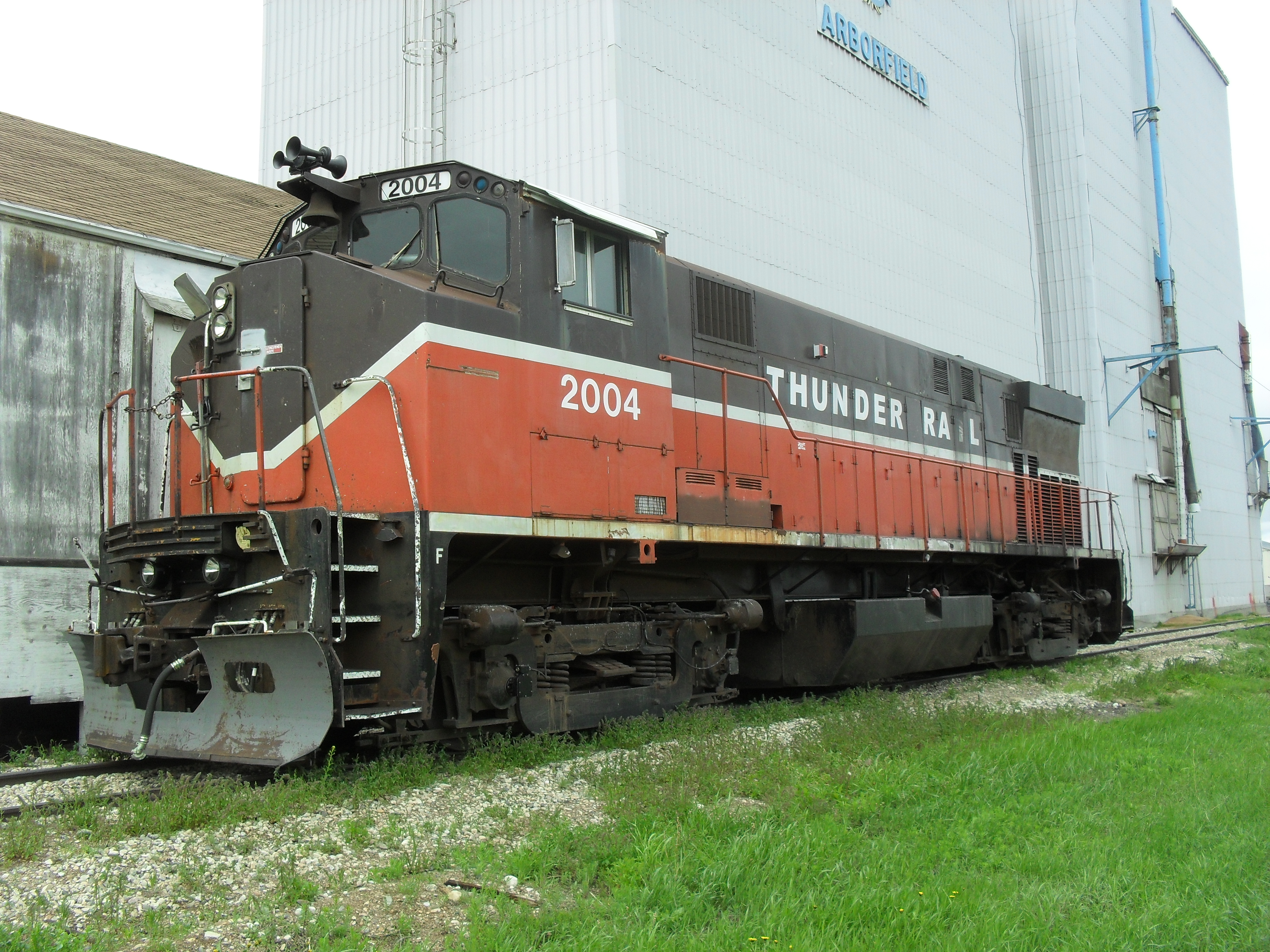 M-420 of Thunder Rail. Community of Arborfield at the Thunder Rail HQ.